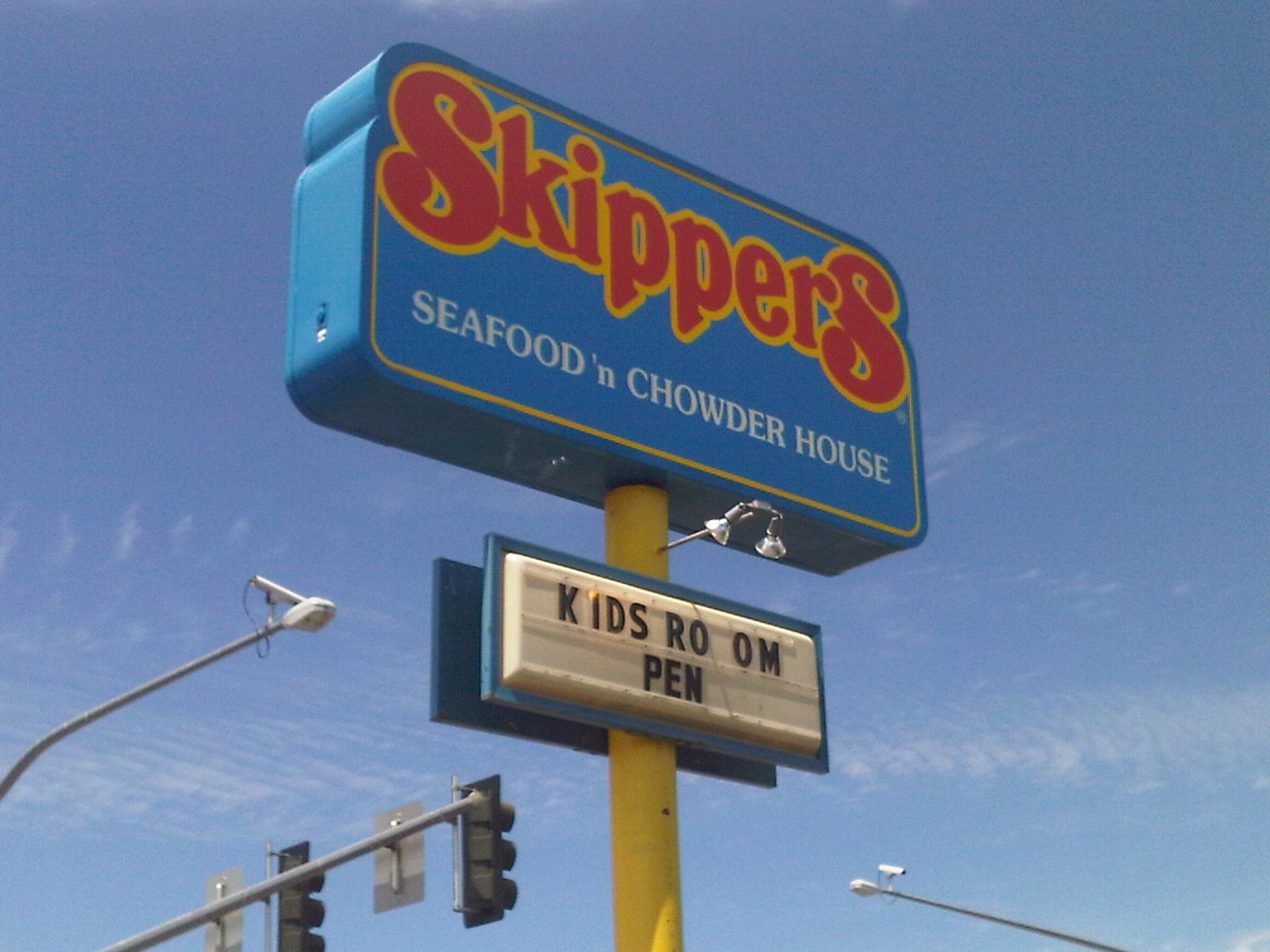 Because of course a Kids' Room should be called a "Pen"!